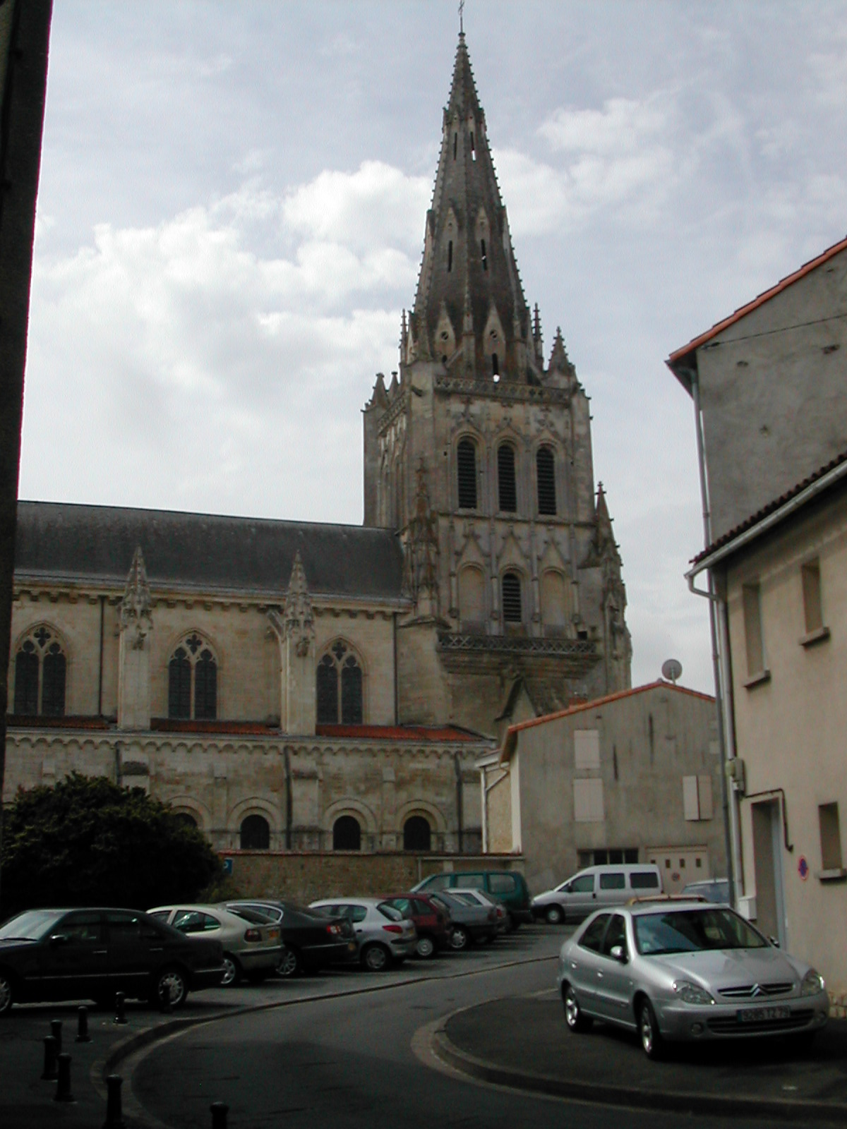 Church of Saint-Maixent-l'École, Deux-Sèvres , France